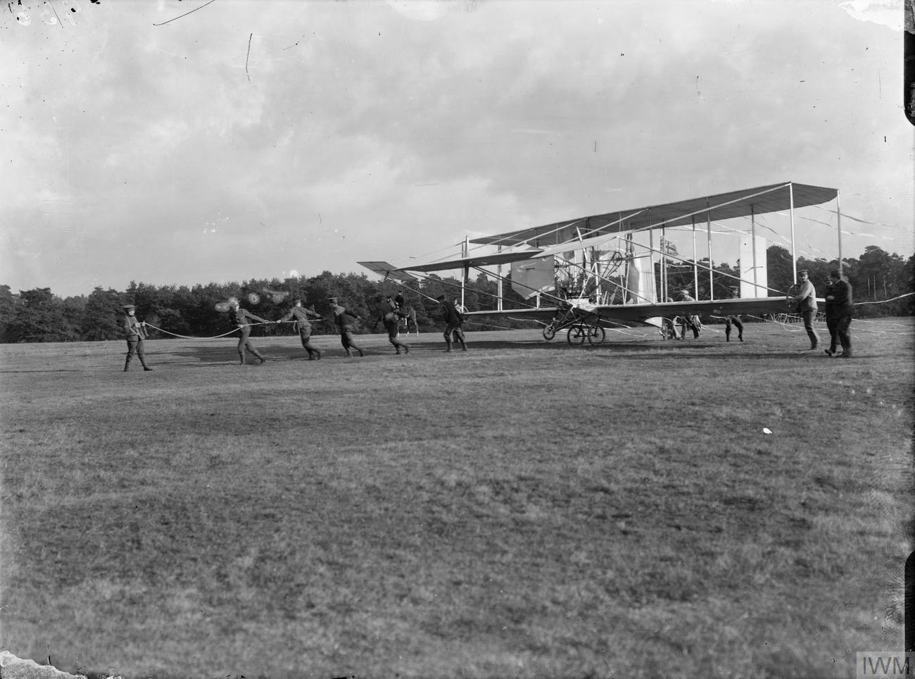 Aviation in Britain Before the First World War- the work of Samuel Franklin Cody in Airship, Kite and Aircraft Aeronautics 1903 - 1913 Cody Aircraft Mark IB being pulled into position by a team of soldiers. Note the streamers attached to the wing struts.